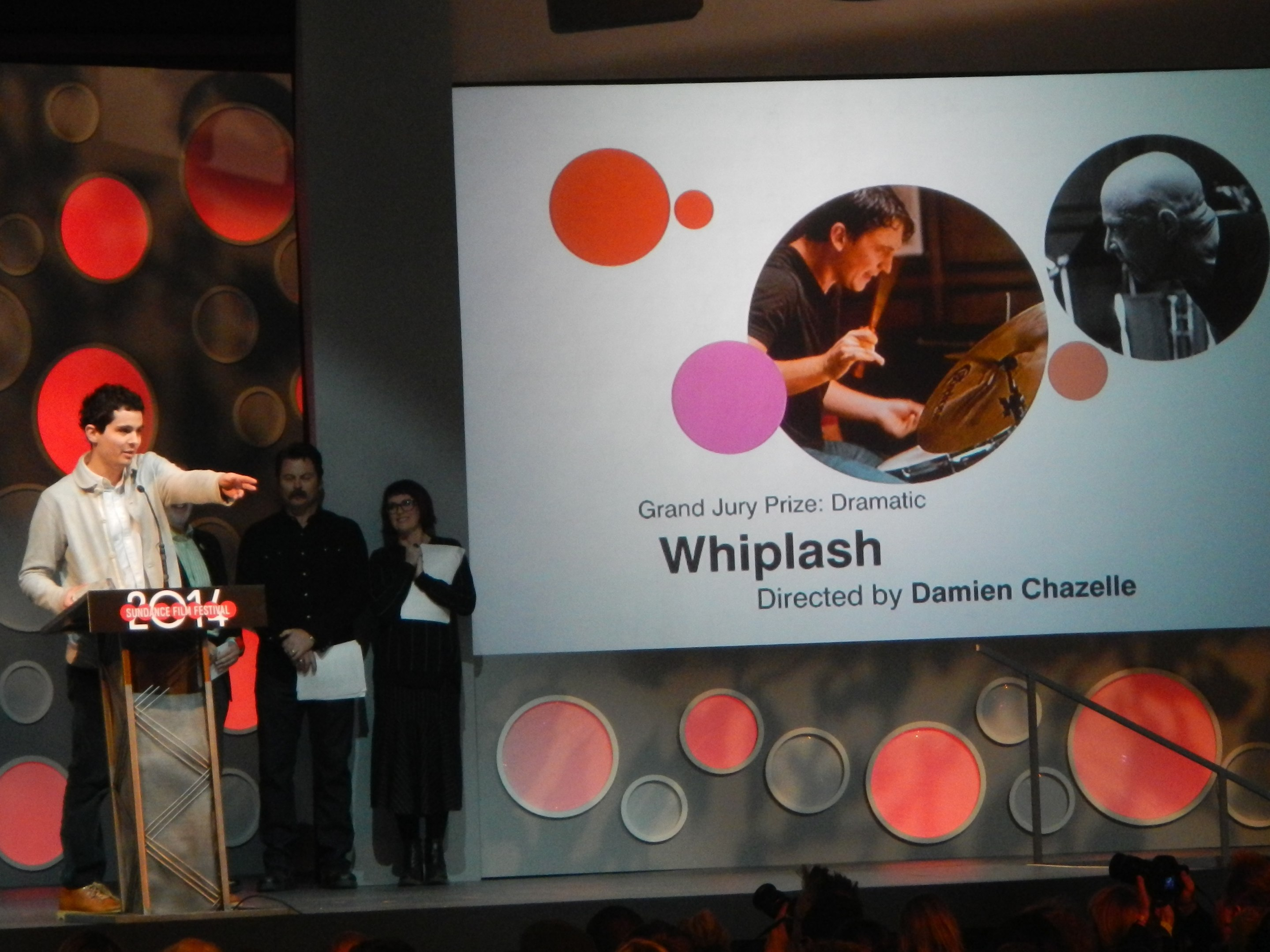 Whiplash Wins Grand Jury Prize: Dramatic at Sundance 2014 Awards Ceremony